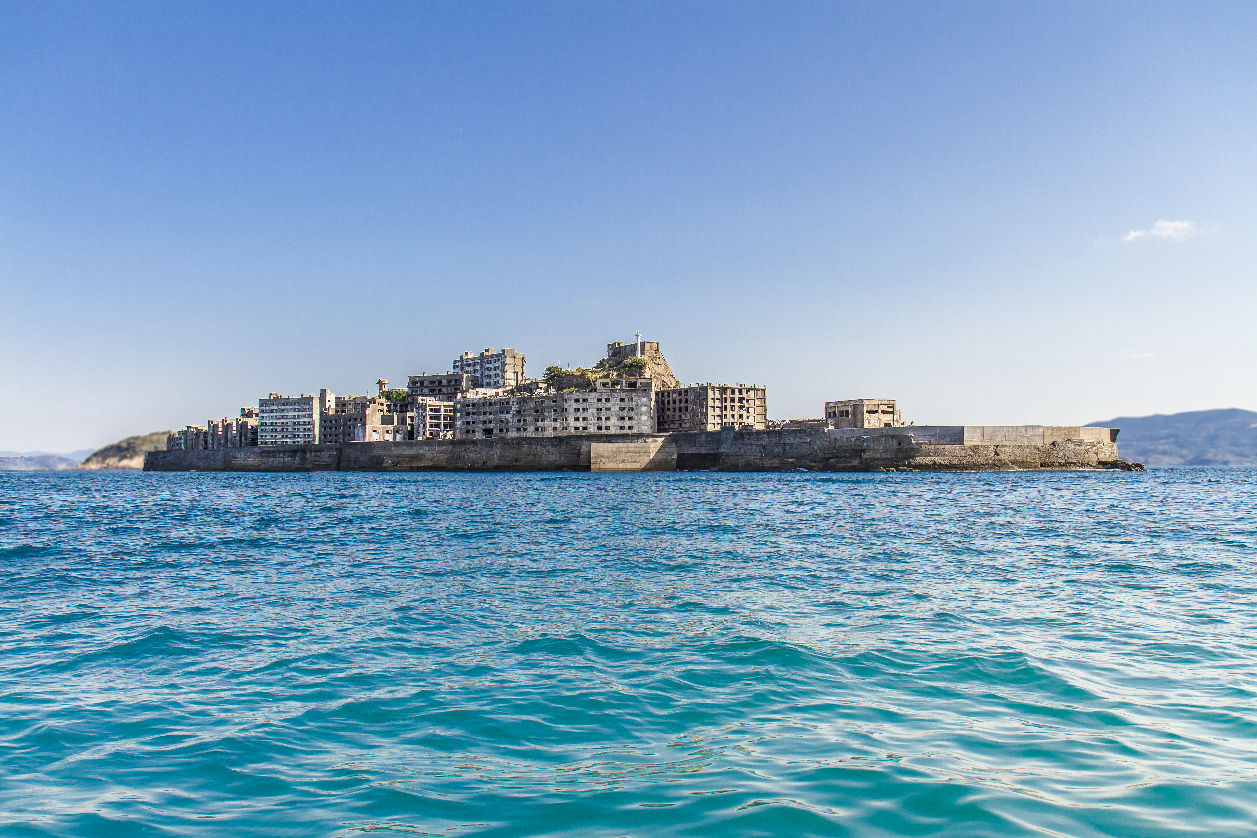 Gunkanjima, view from a boat.